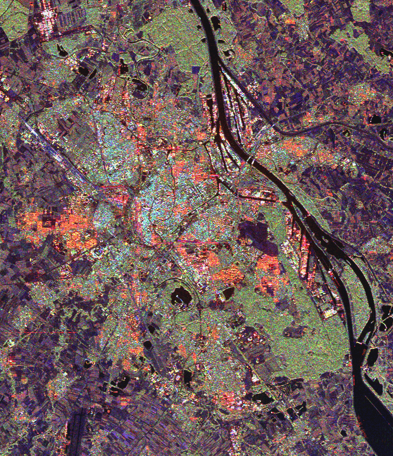 Excerpt of the image PIA01859 taken by the Space Shuttle on October 2, 1994.